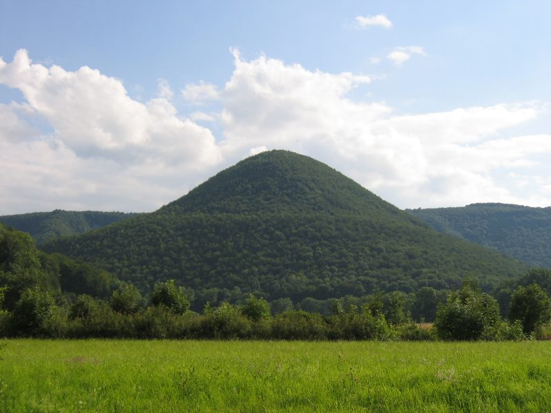 Runder Berg near Bad Urach, Germany